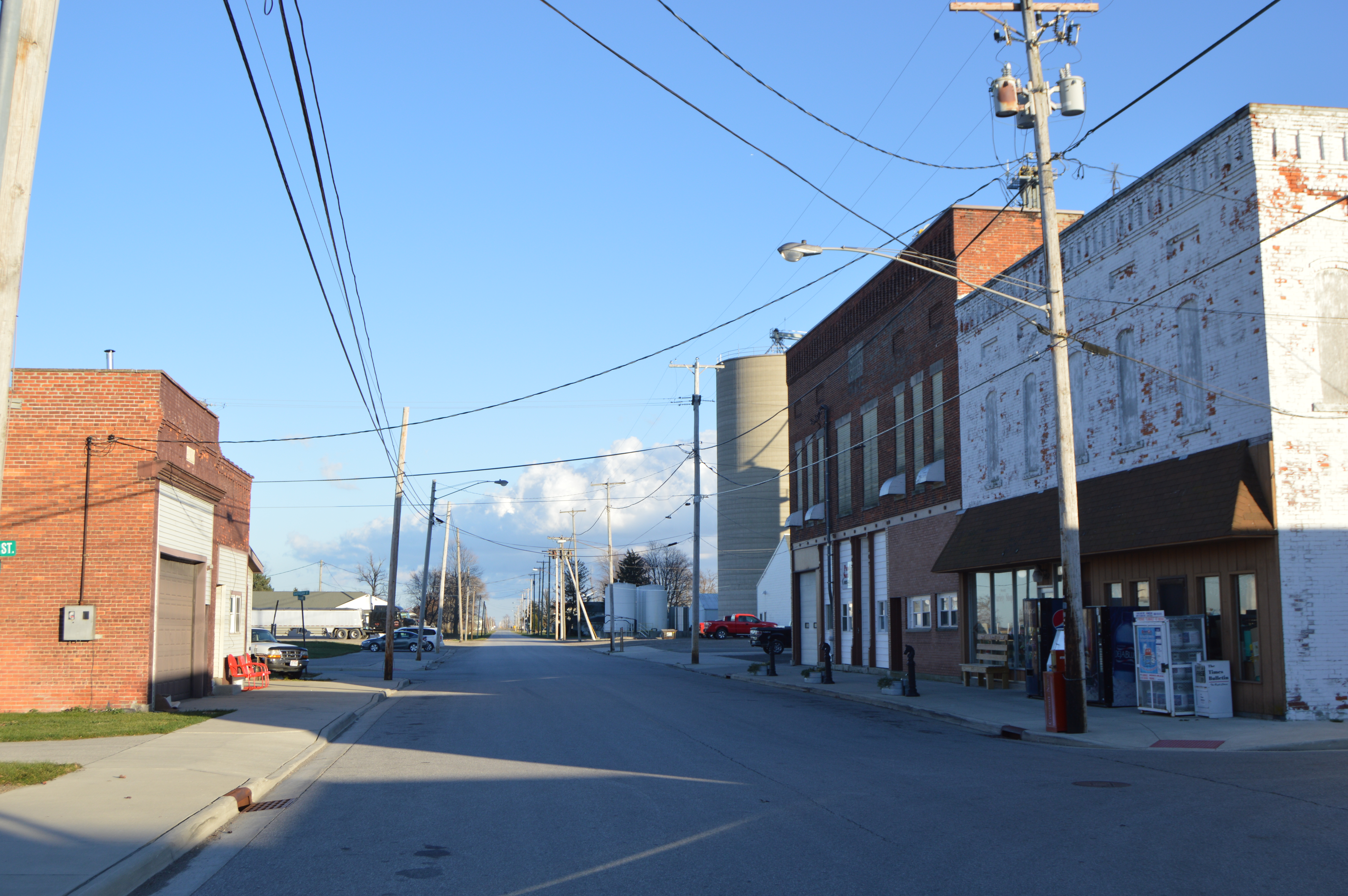 Looking eastward on Blaine Street from near the Grand Street intersection in Haviland, Ohio, United States. Blaine marks the boundary between Paulding (left) and Van Wert (right) counties.